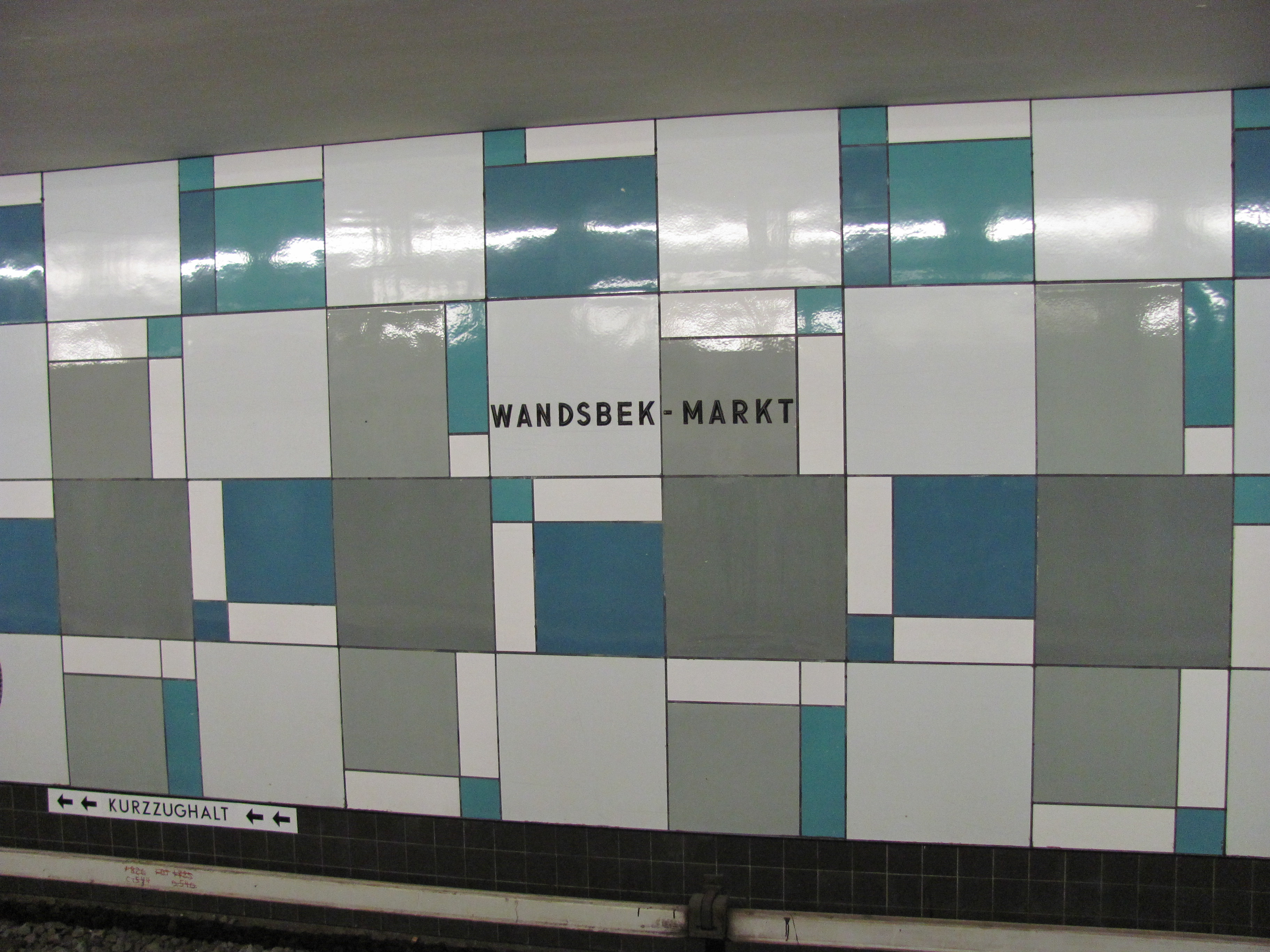 U-Bahn station Wandsbek Markt in Hamburg, Germany